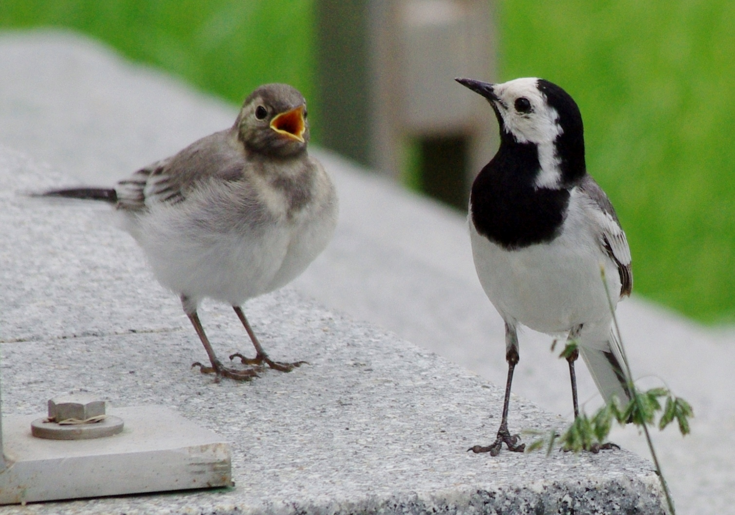 A adult White Wagtail with a juvenile in Astana, Kazakhstan.